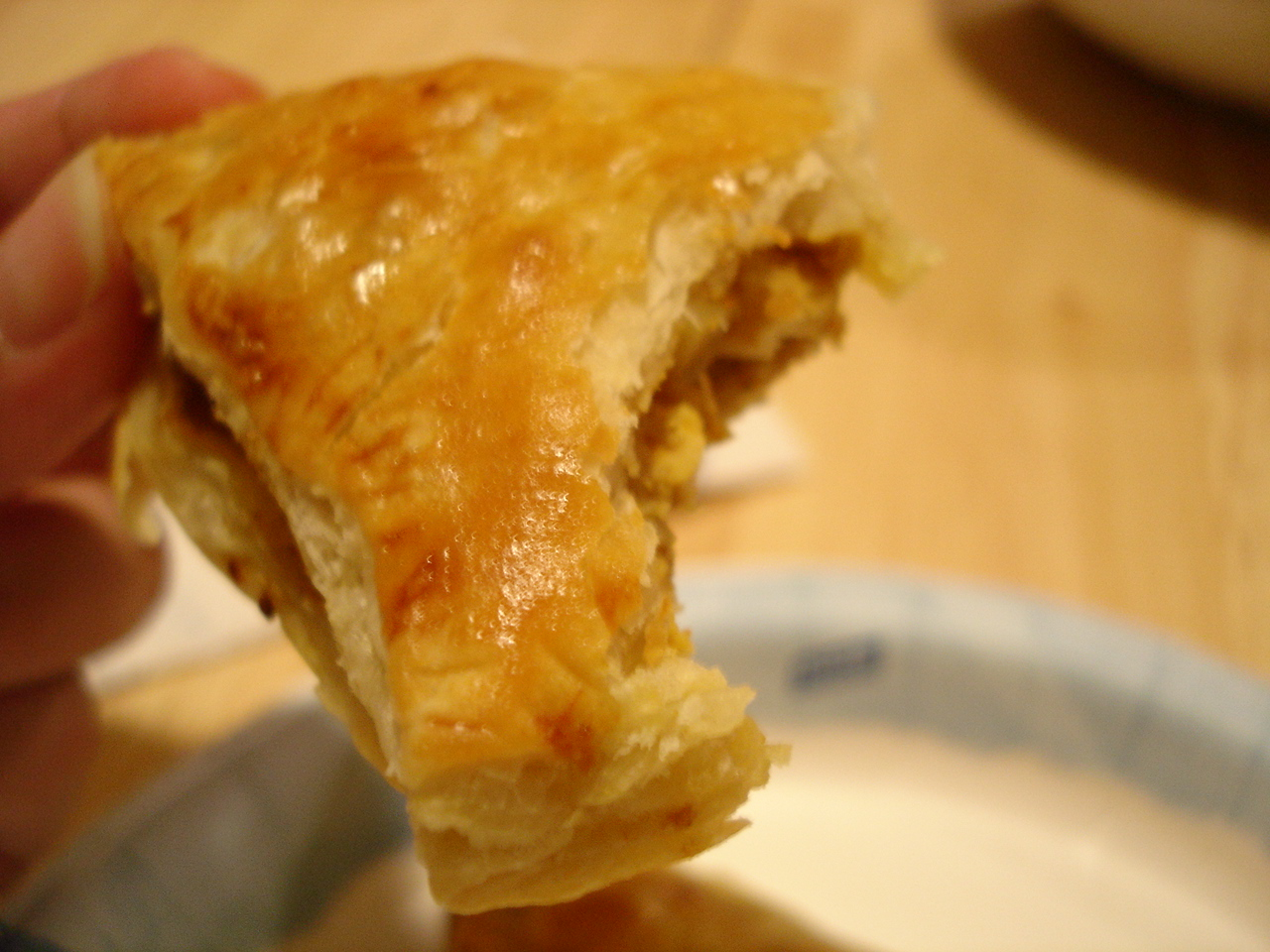 Curry Puff